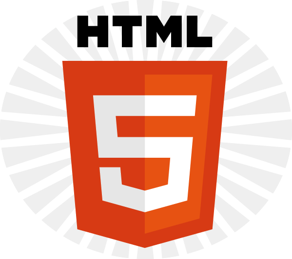 HTML5 oval logo, see W3C HTML5 logo)